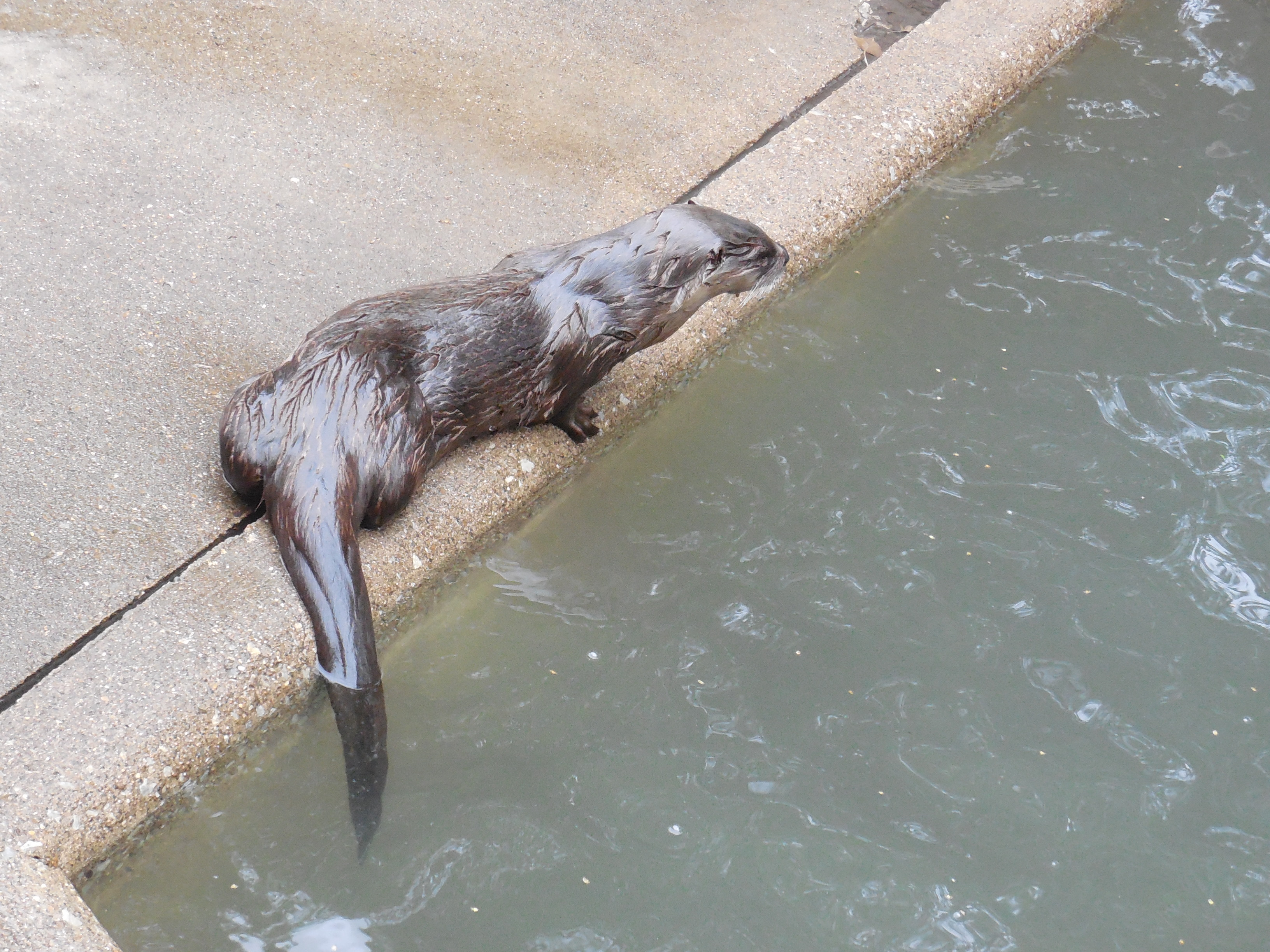 River Otter at the Springfield Illinois Zoo 3